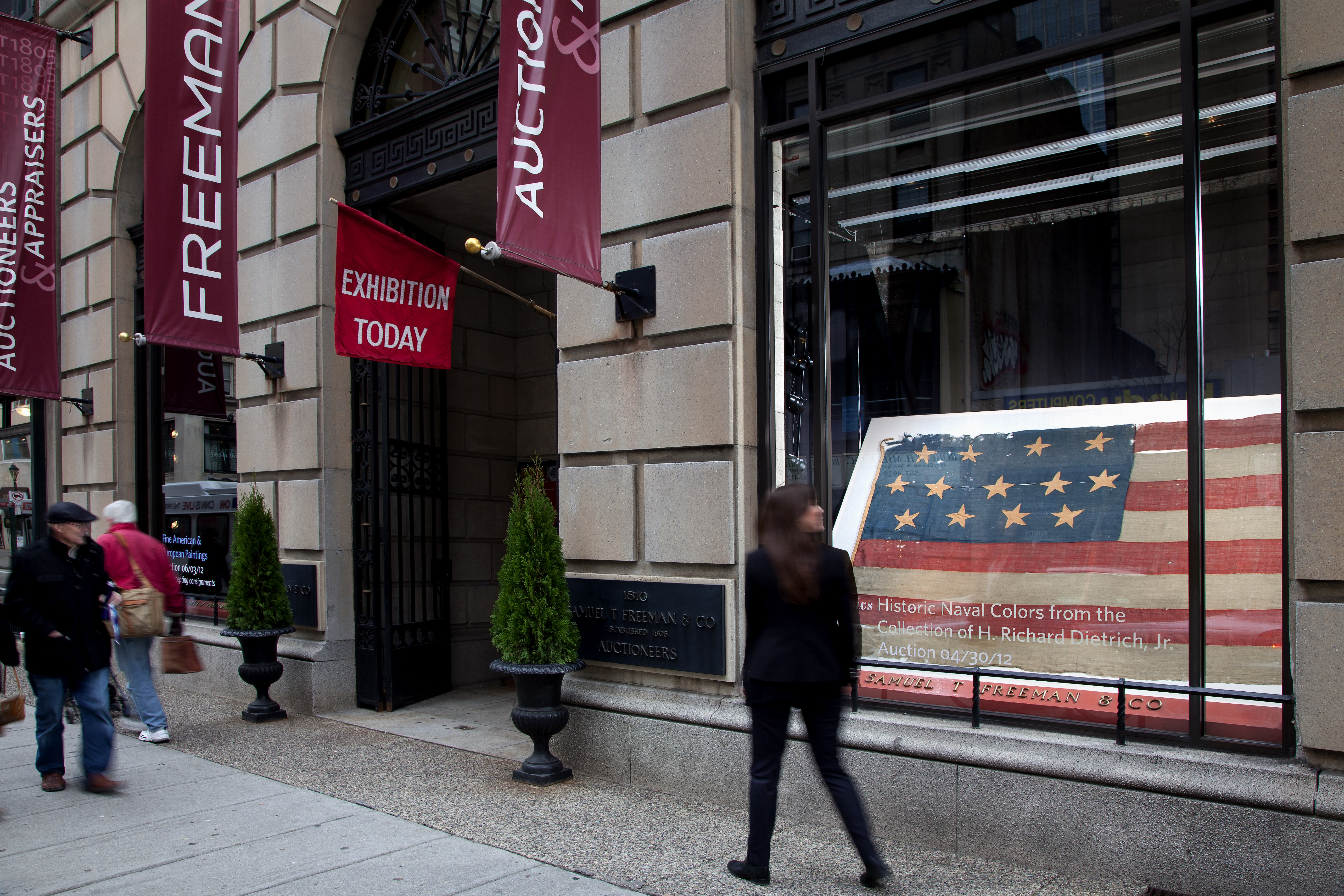 Freeman's, an auction house founded in Philadelphia in 1805.